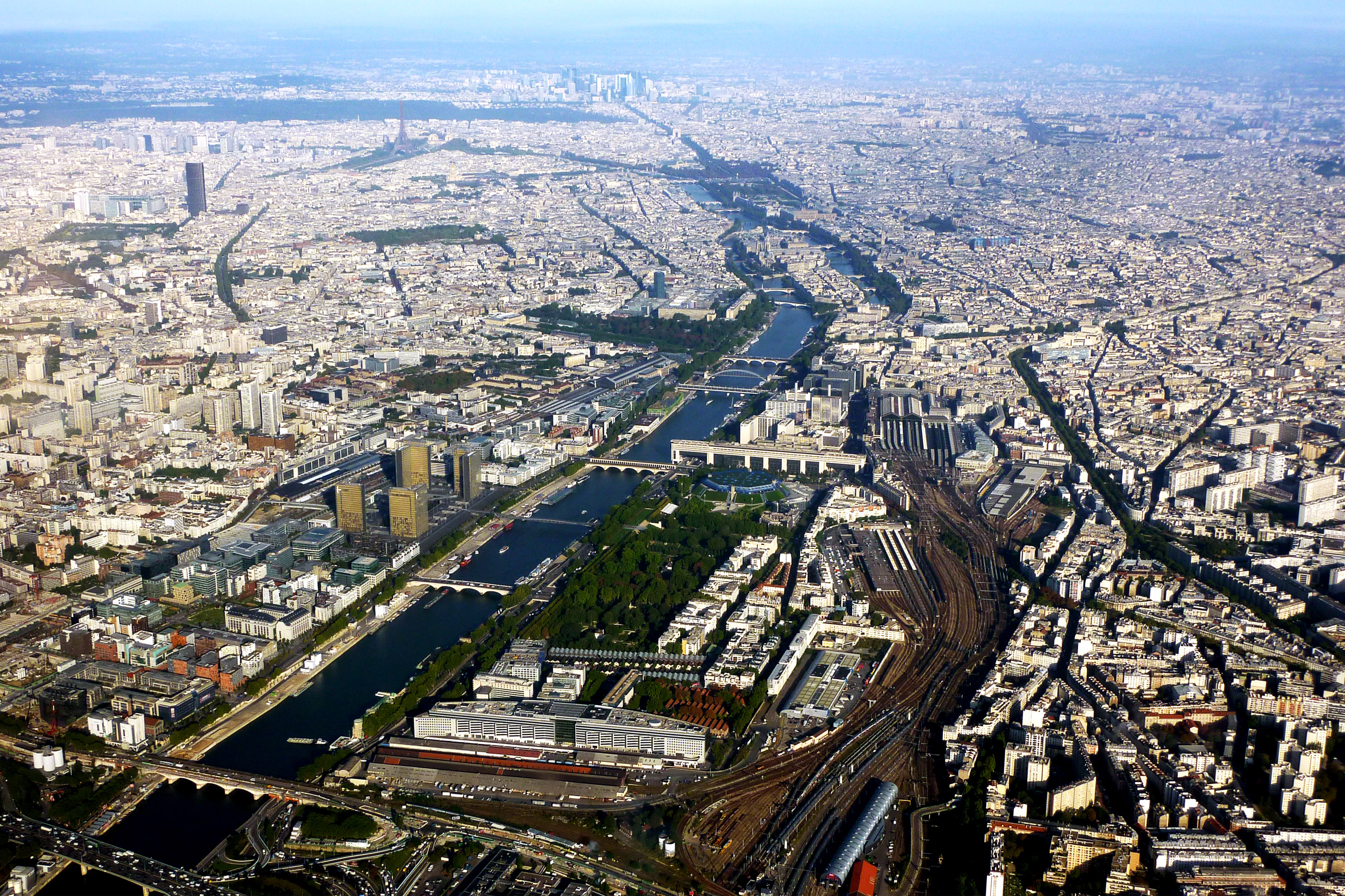 Aerial photograph of Paris.